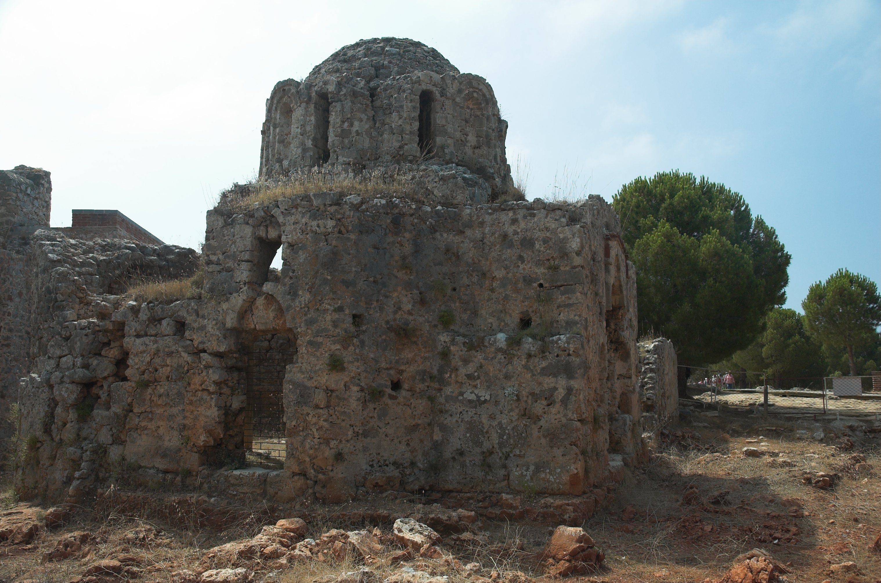 Byzantine era church inside the Alanya Castle